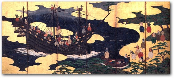 MIT/Library of Congress exhibit at